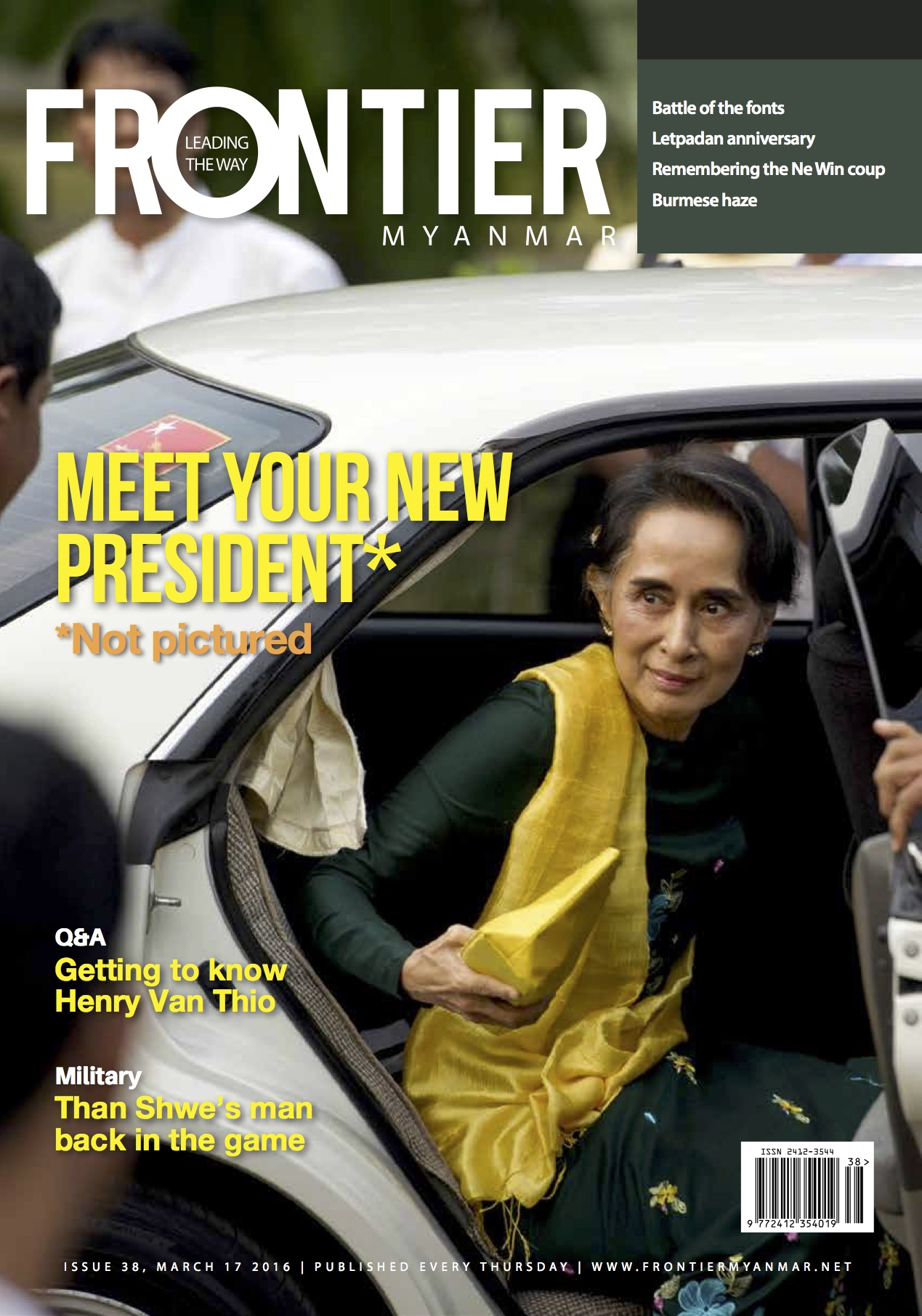 The front cover of Issue 38 of the Yangon weekly newsmagazine Frontier Myanmar.